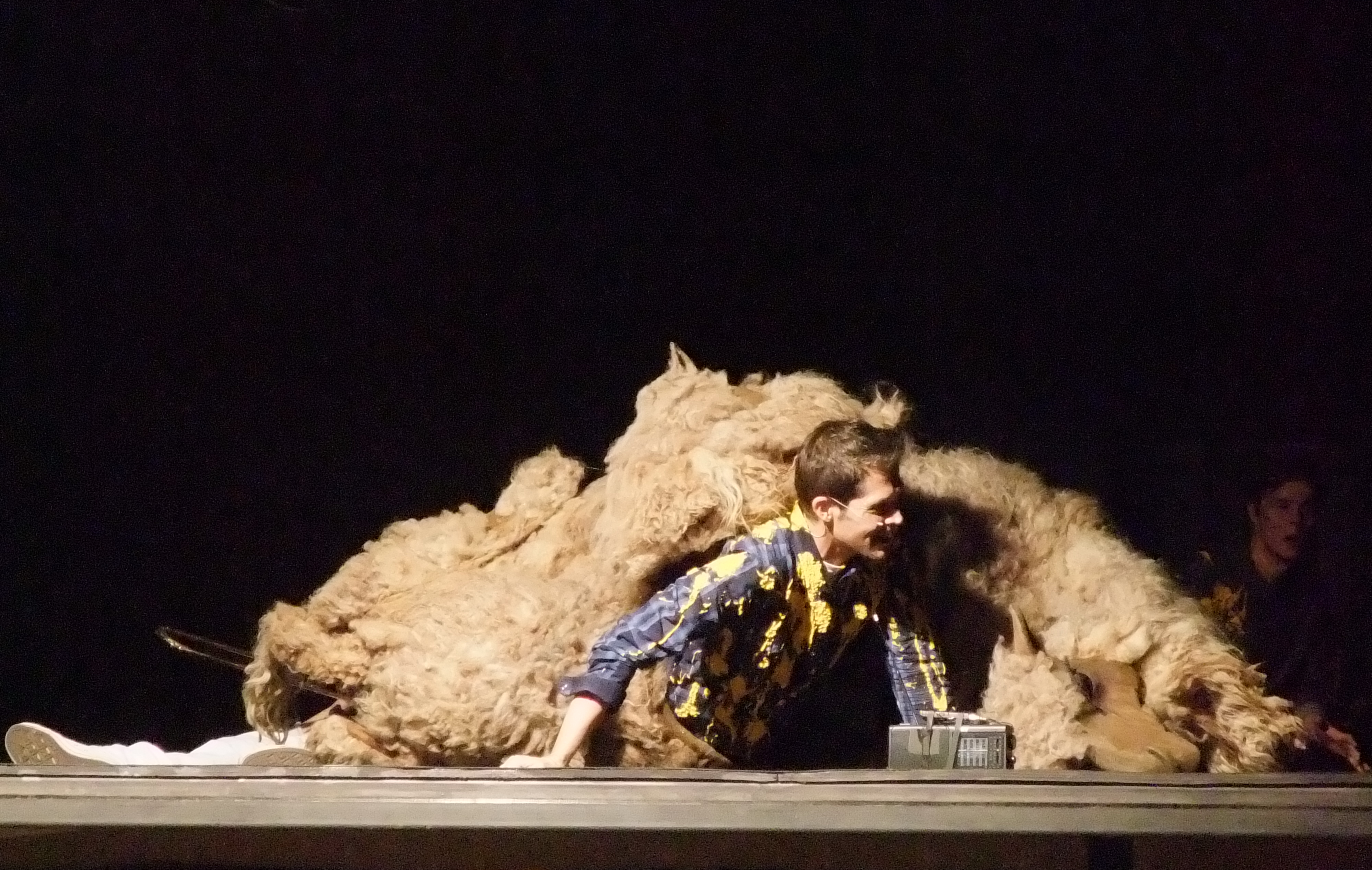 Moment 50 from the fourth scene, Michaelion, of Karlheinz Stockhausen's opera Mittwoch aus Licht. Birmingham Opera, Friday 24 August 2012, Argyle Works, Digbeth, Birmingham. Following a mock bullfight in which Lucicamel defeats Trombonut, Luca (Michael Leibundgut) emerges from his bactrian camel disguise, holding his short-wave radio, to take up the post of President, now designated "Operator".